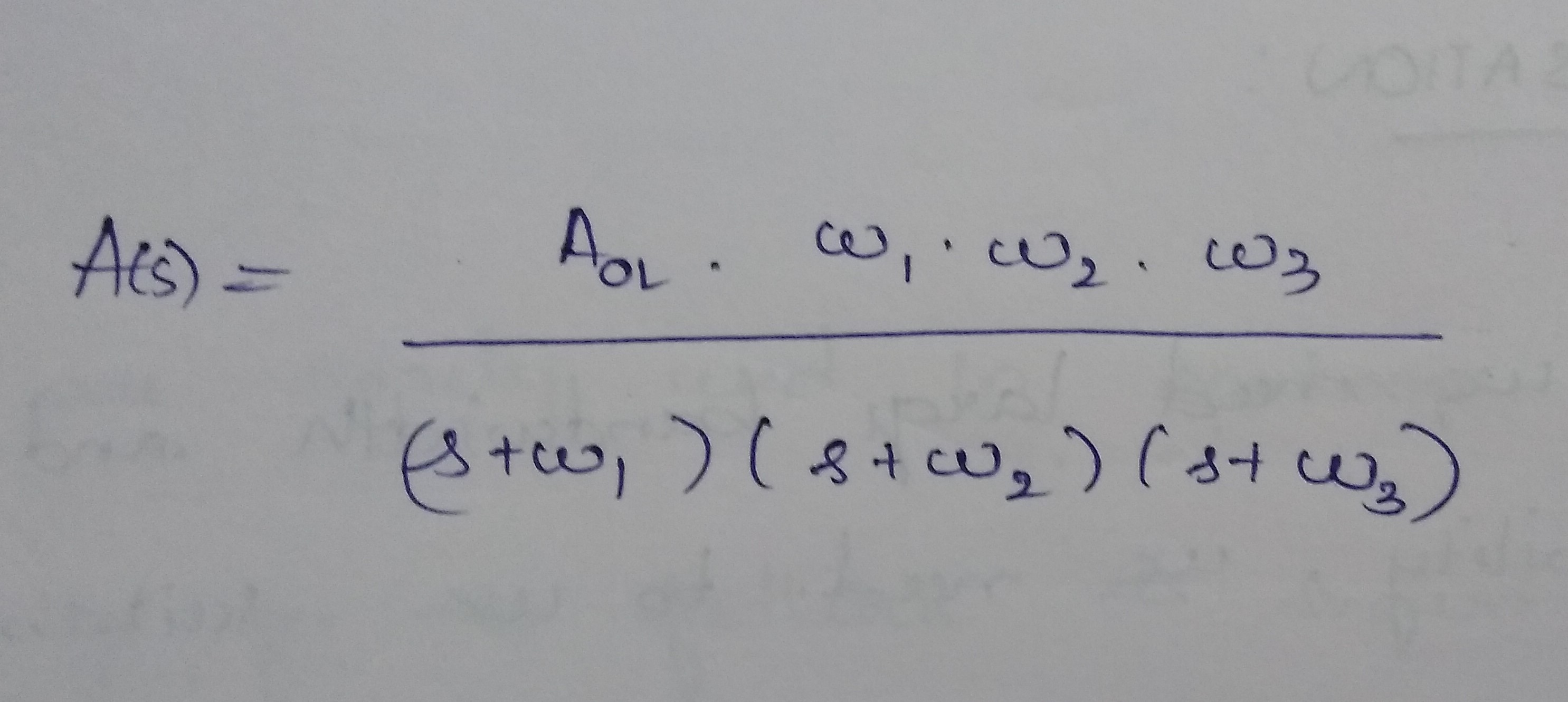 This is the formula for an uncompensated Op-Amp in open loop configuration.